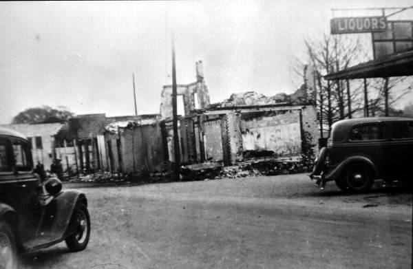 Most of downtown Macclenny, Florida was destroyed by a fire of unknown origin on May 4, 1923.